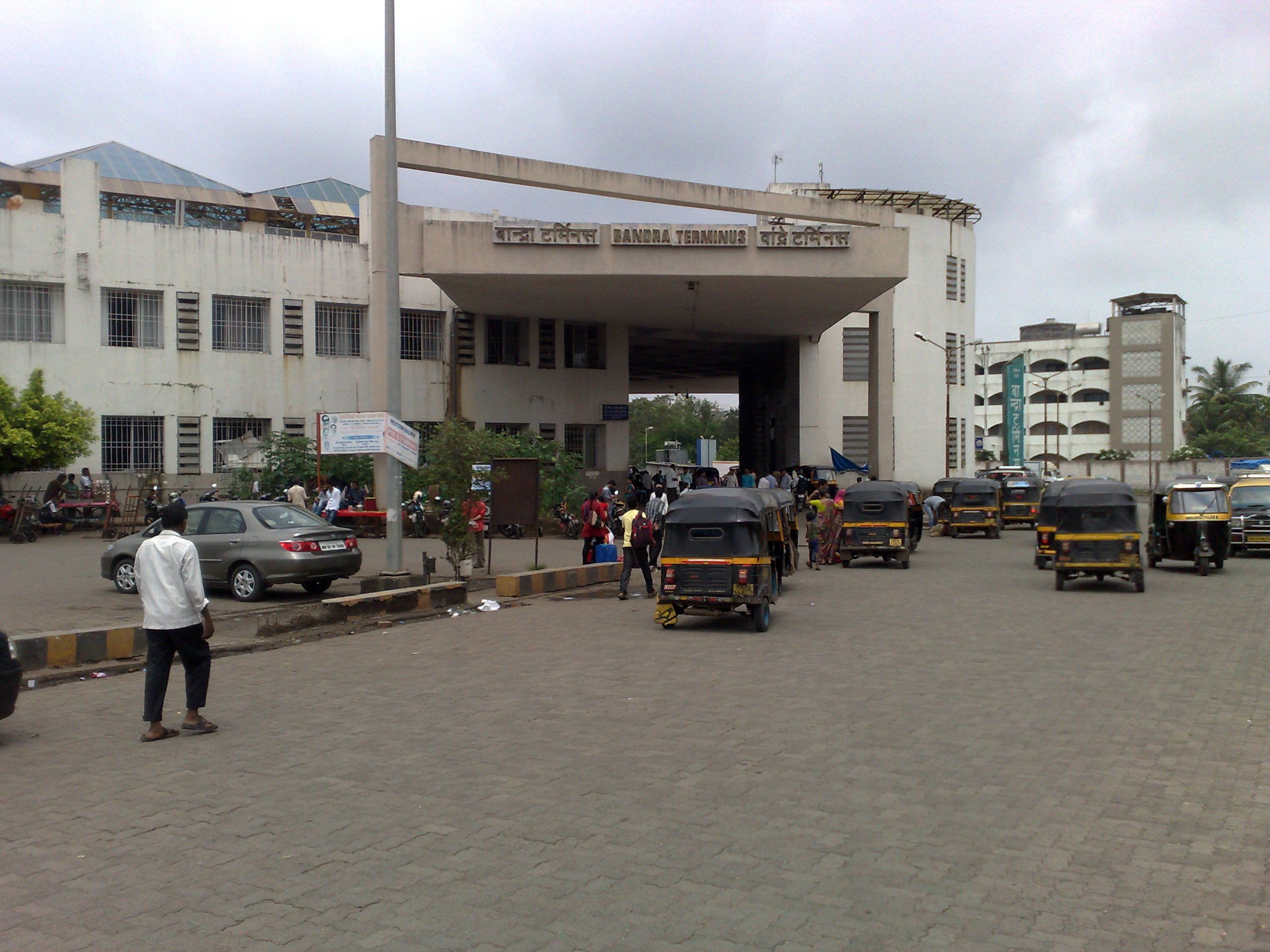 Bandra Terminus - Main Building